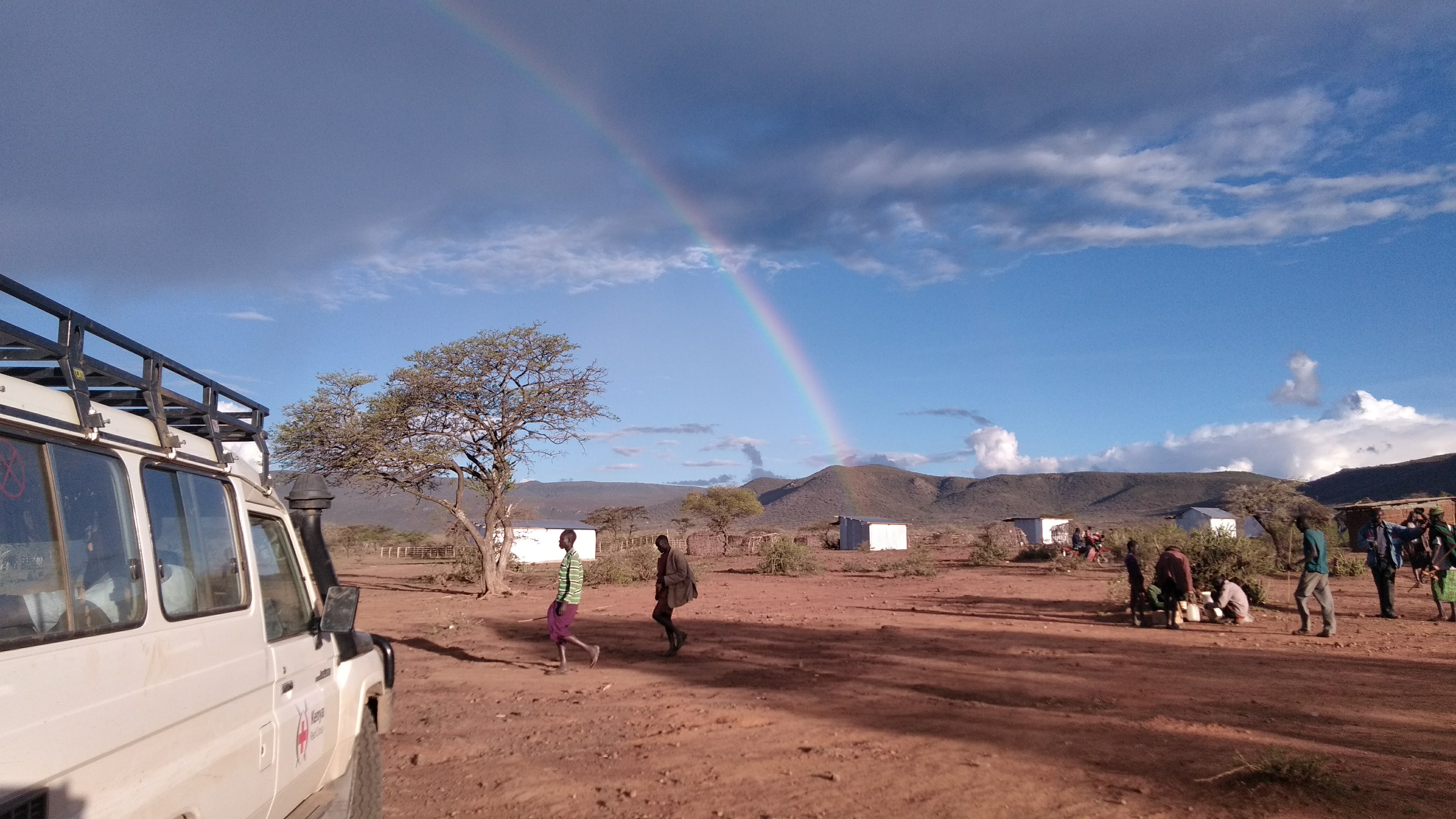 Red Cross Teams work in the remotest corners of Kenya. This is an image with the theme "Africa on the Move or Transport" from: Kenya